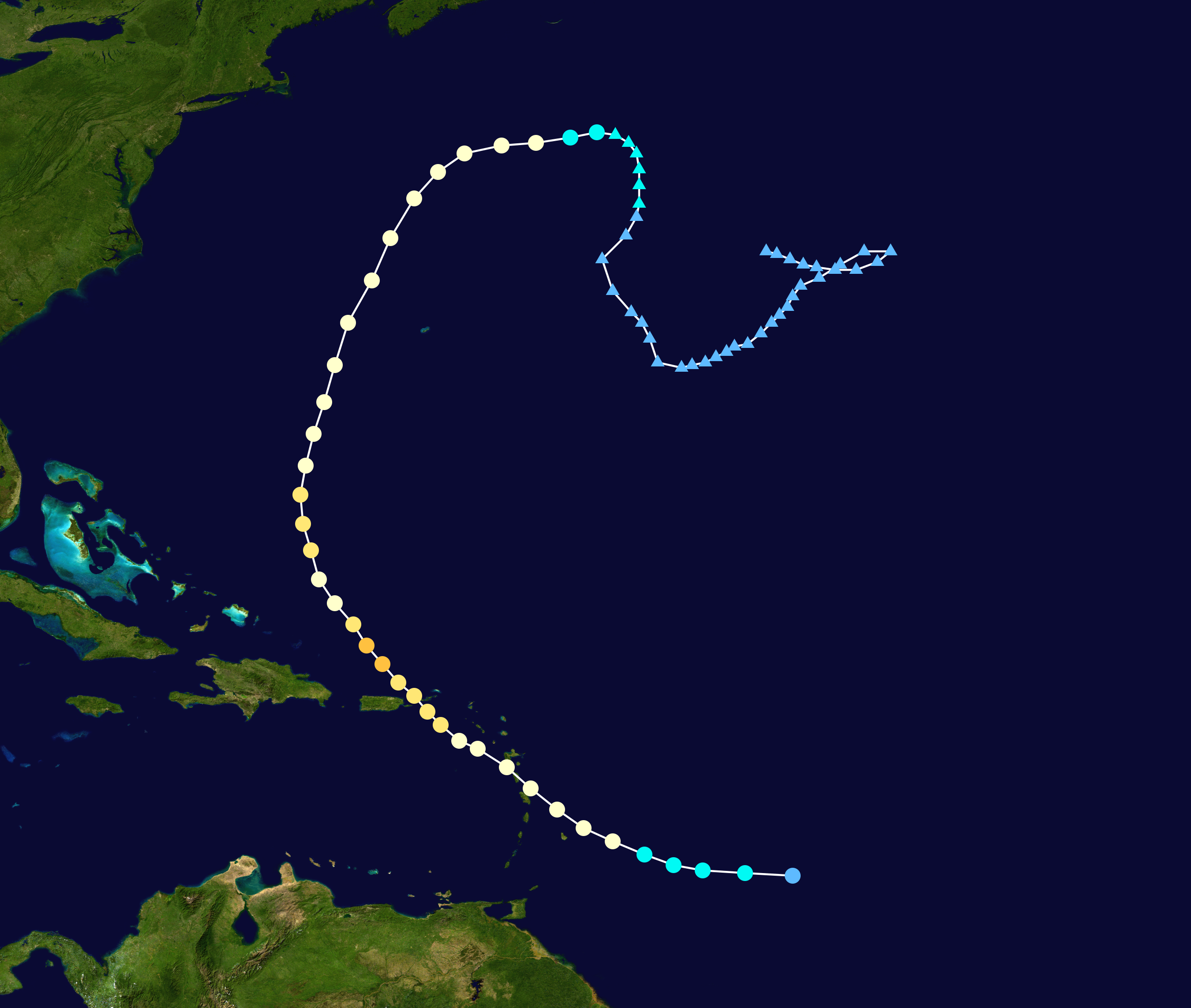 Track map of Hurricane Marilyn of the 1995 Atlantic hurricane season. The points show the location of the storm at 6-hour intervals. The colour represents the storm's maximum sustained wind speeds as classified in the Saffir–Simpson scale (see below), and the shape of the data points represent the nature of the storm, according to the legend below. Saffir–Simpson scale Tropical depression≤38 mph≤62 km/h Category 3111–129 mph178–208 km/h Tropical storm39–73 mph63–118 km/h Category 4130–156 mph209–251 km/h Category 174–95 mph119–153 km/h Category 5≥157 mph≥252 km/h Category 296–110 mph154–177 km/h Unknown Storm type Tropical cyclone Subtropical cyclone Extratropical cyclone / Remnant low / Tropical disturbance / Monsoon depression